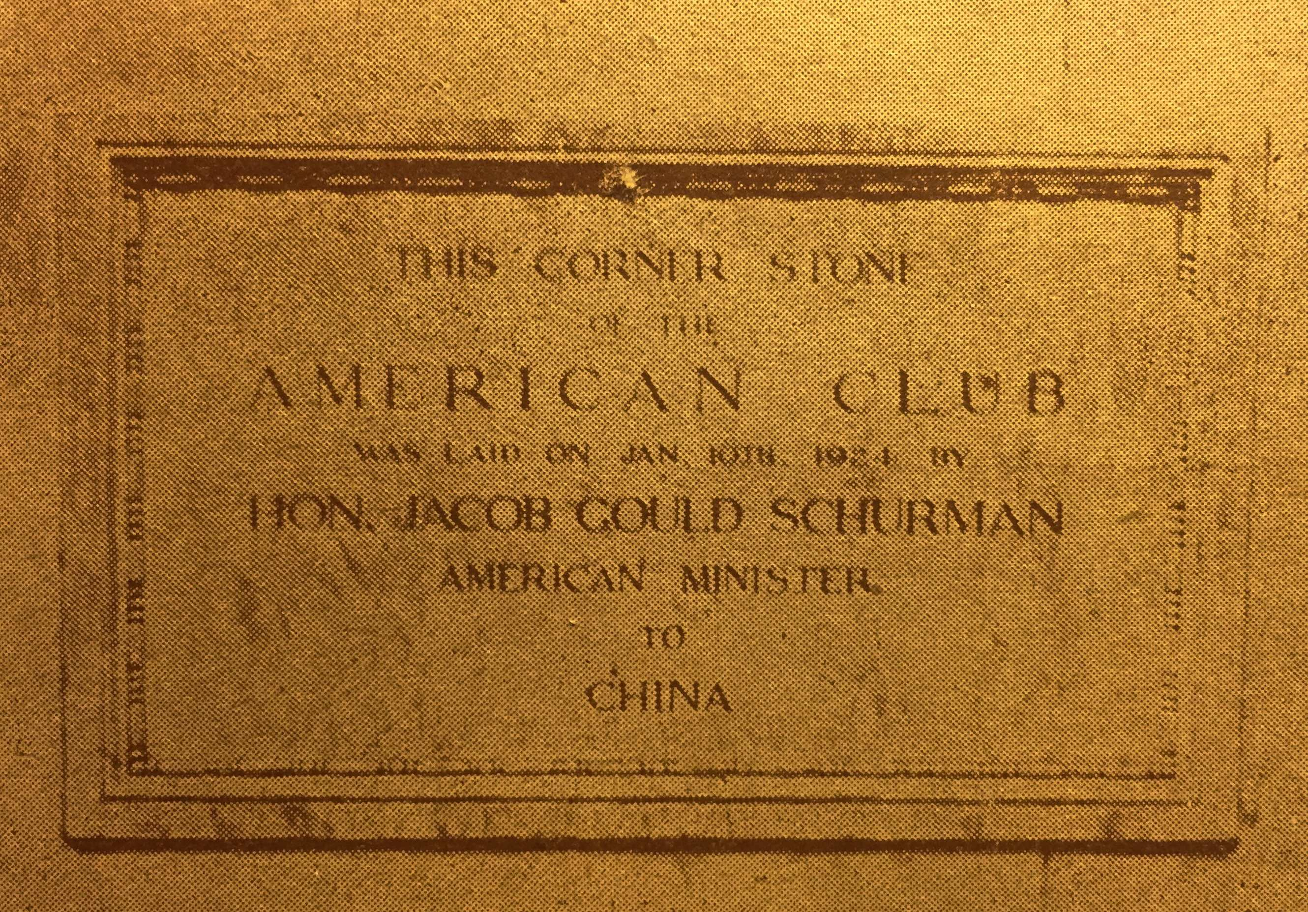 Original Cornerstone of Shanghai American Club